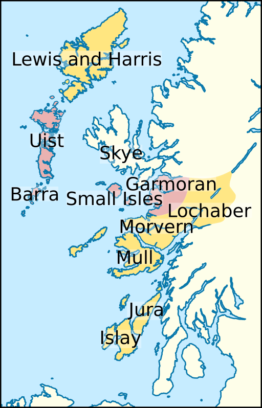 The extent of the Lordship of the Isles in 1343 (yellow), plus the Clann Ruaidhrí territories (red) added to the lordship in 1346, after the assassination of the Clann Ruaidhrí chief, Raghnall Mac Ruaidhrí. The map is derived from that shown on page 65 of: Lynch, M (1991). Scotland: A New History. London: Century. ISBN 0-7126-3413-4.